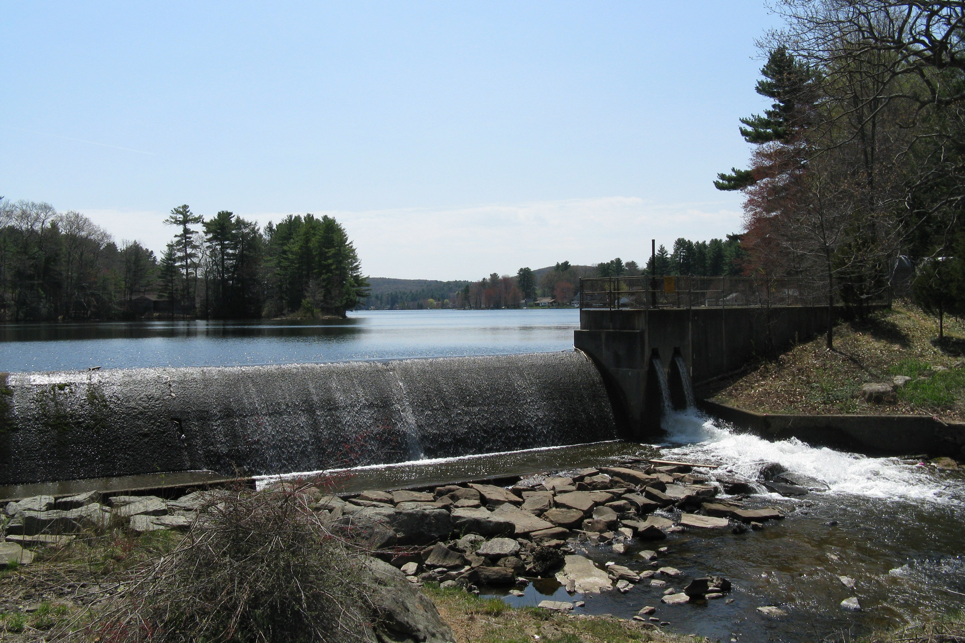 Hamilton Reservoir, Holland Massachusetts